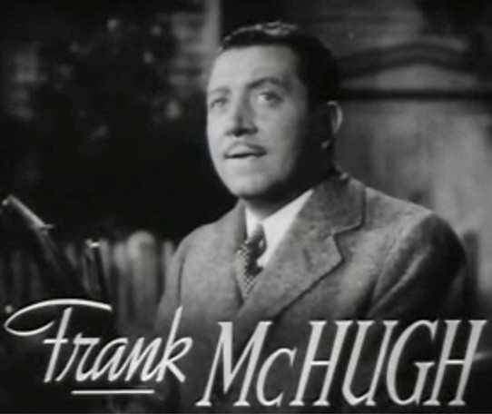 Cropped screenshot of Frank McHugh from the trailer for the film Four Daughters